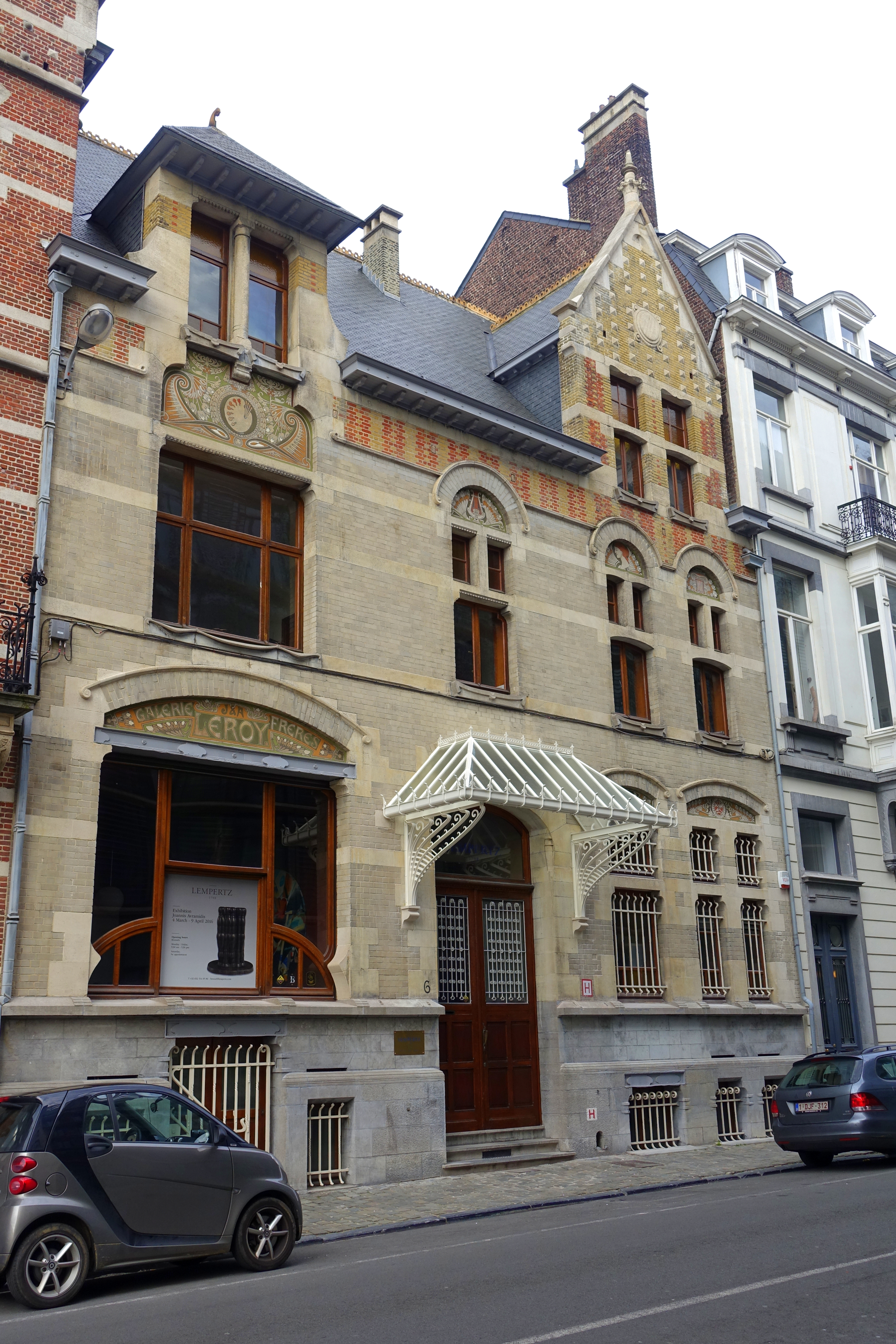 Galerie J & A Leroy Frères, Grotehertstraat 6 rue du Grand Cerf B - Brussels, Belgium.